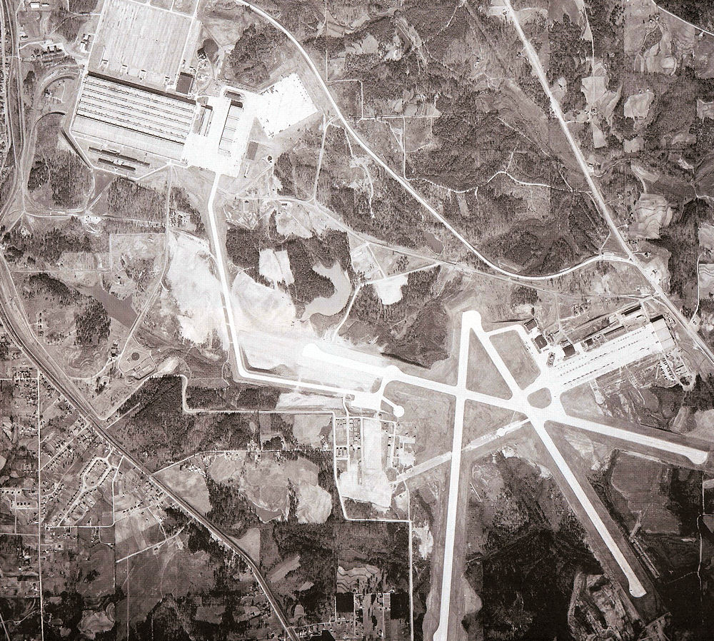 Maietta Army Airfield, Atlanta Georgia, 1944